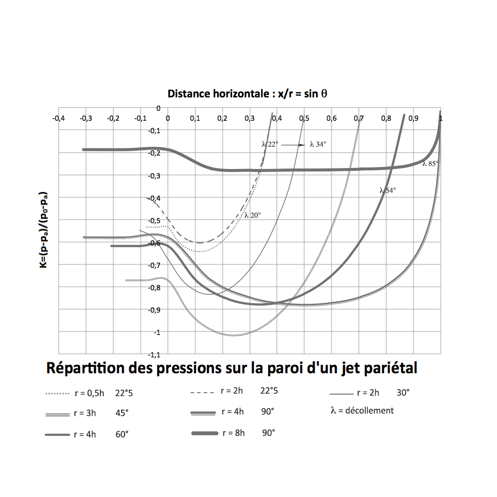 Inviscid flow of a wall jet of width h along a circular wall of radius r is calculated using formulae (27) and (29) from L.C. Woods: Compressible subsonic flow in two-dimensional channels with mixed boundary conditions, in: Quart. Journ.Mech.and Applied Math., Vol VII, Pt.3 (1954). The deviation angle must be given for the calculation: the angle found in experiments made by the author M. Kadosch in 1956 was chosen, and is here compared with the separation angle found in a calculation of the separation of the boundary layer due to the calculated pressure gradient along the wall (Kadosch M.: The curved wall effect in: 2nd Cranfield Fluidics Conference, Cambridge, 1967-01-03). Also this theoretical pressure is compared with the experimental pressure along the wall found by the author Kadosch M.: Déviation d'un jet par adhérence à une paroi convexe, in: Journal de Physique et le Radium, Paris, Avril 1958, p. 9A Date 7 mai 2015, 18:57:44 Source Travail personnel, in: Illusions créatrices, CreateSpace/Kindle 2015, pp.106 et 100 Auteur Marcel kadosch